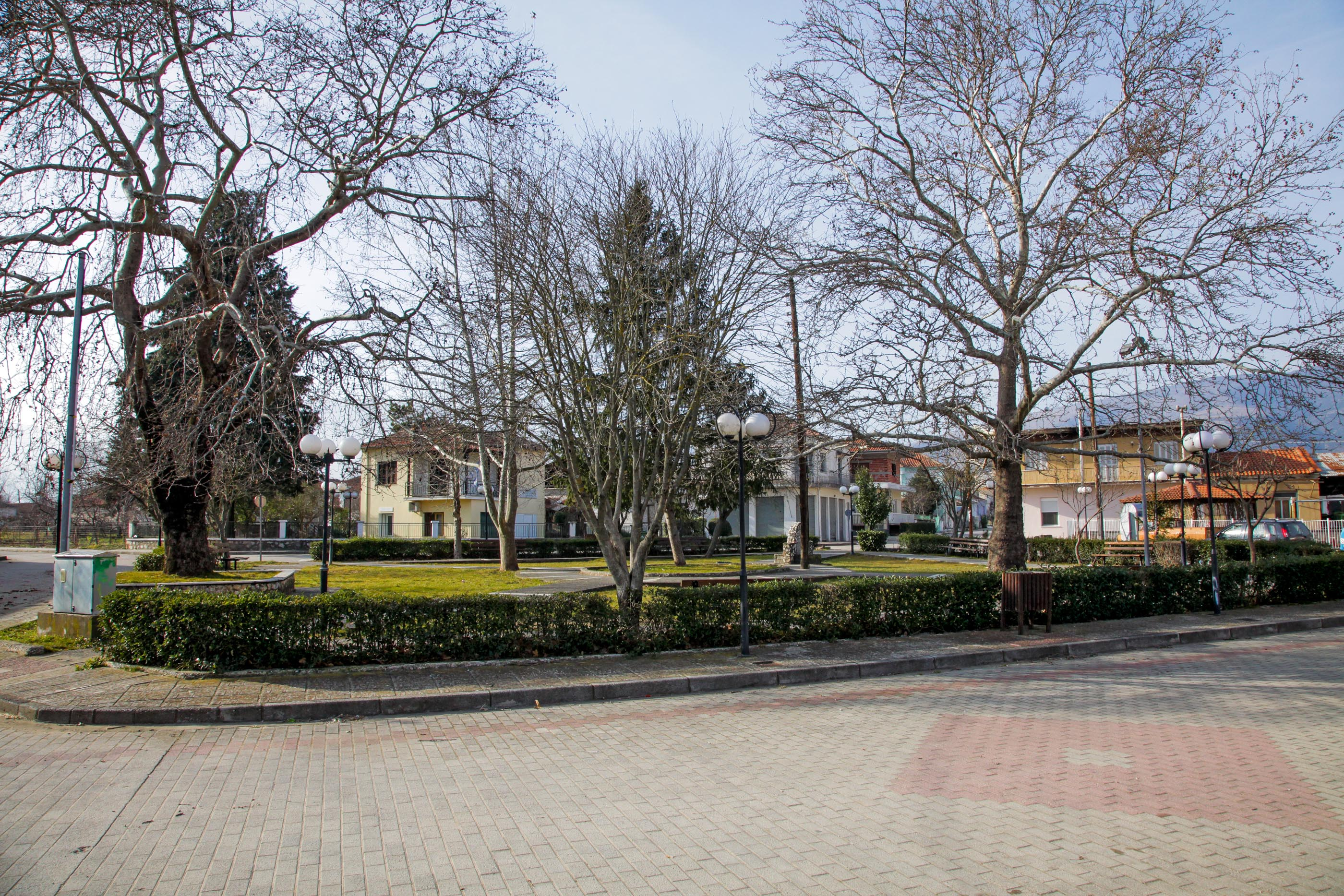 The main square of the village of Grammeni, Drama, Greece